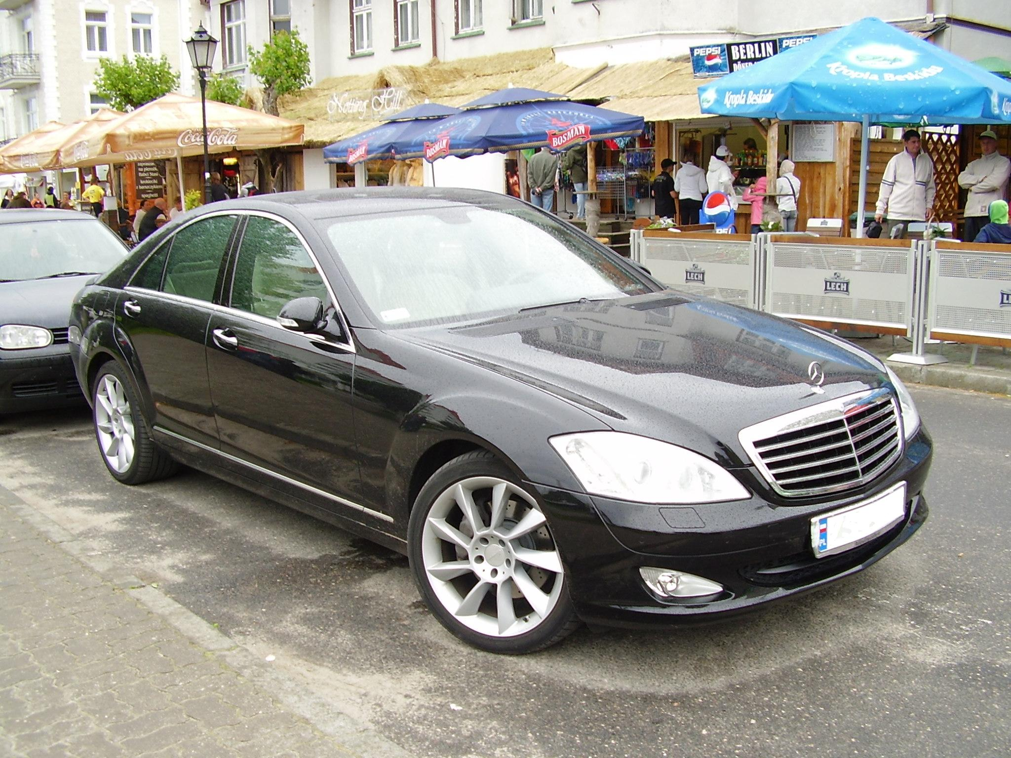 Mercedes-Benz W 221 in Międzyzdroje (Poland)